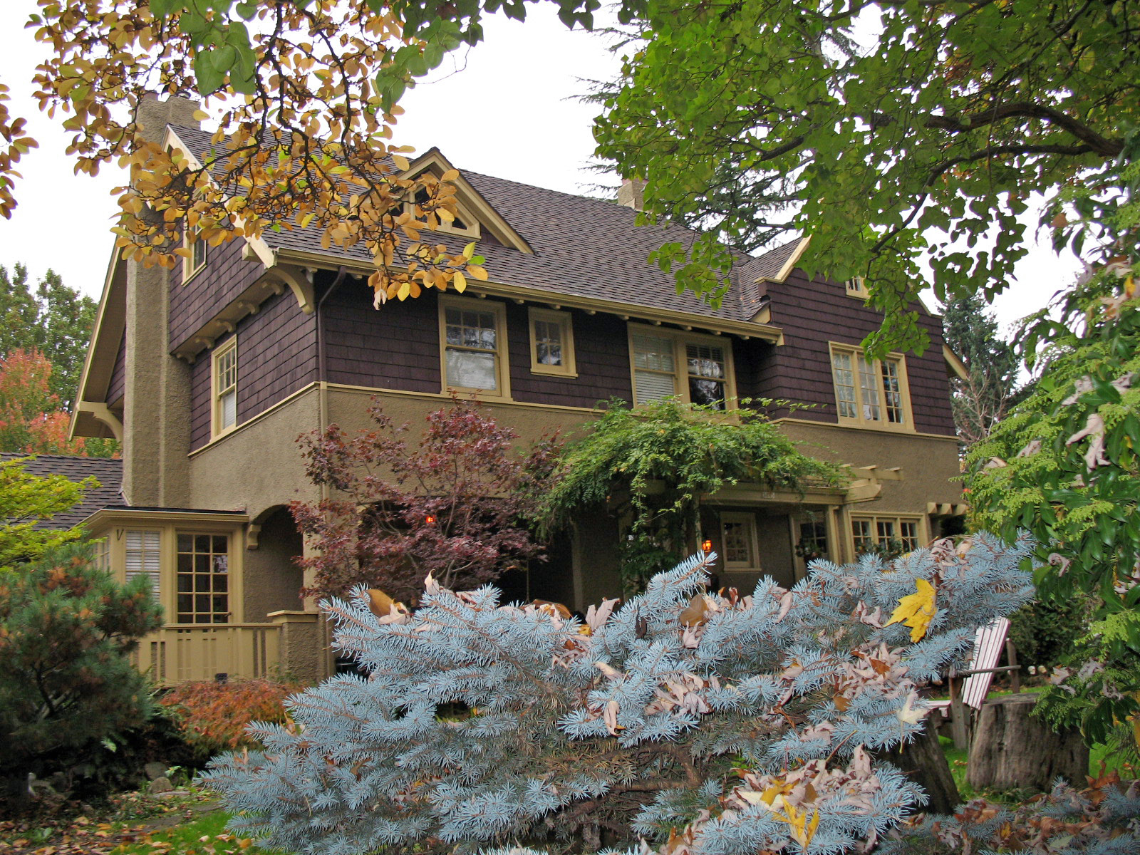 National Register of Historic Places listings in Northeast Portland, Oregon. Pipes Family House, 3045 NE 9th Ave, Portland, OR. Photographed October 25, 2009 from the west side of NE 9th Ave. between NE Siskiyou and NE Stanton St.